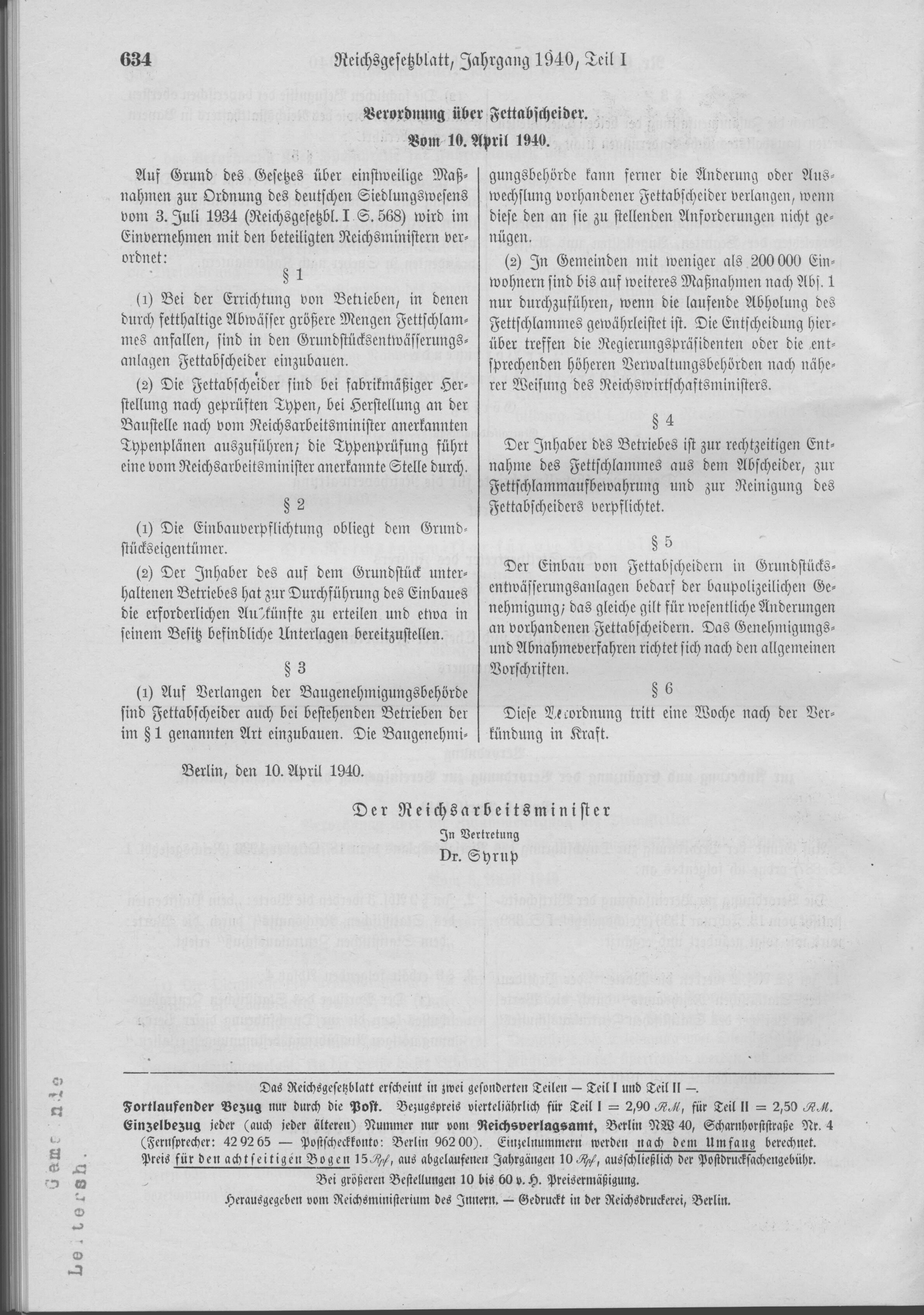 Scan from the Imperial Law Gazette of Germany, 1940, part 1